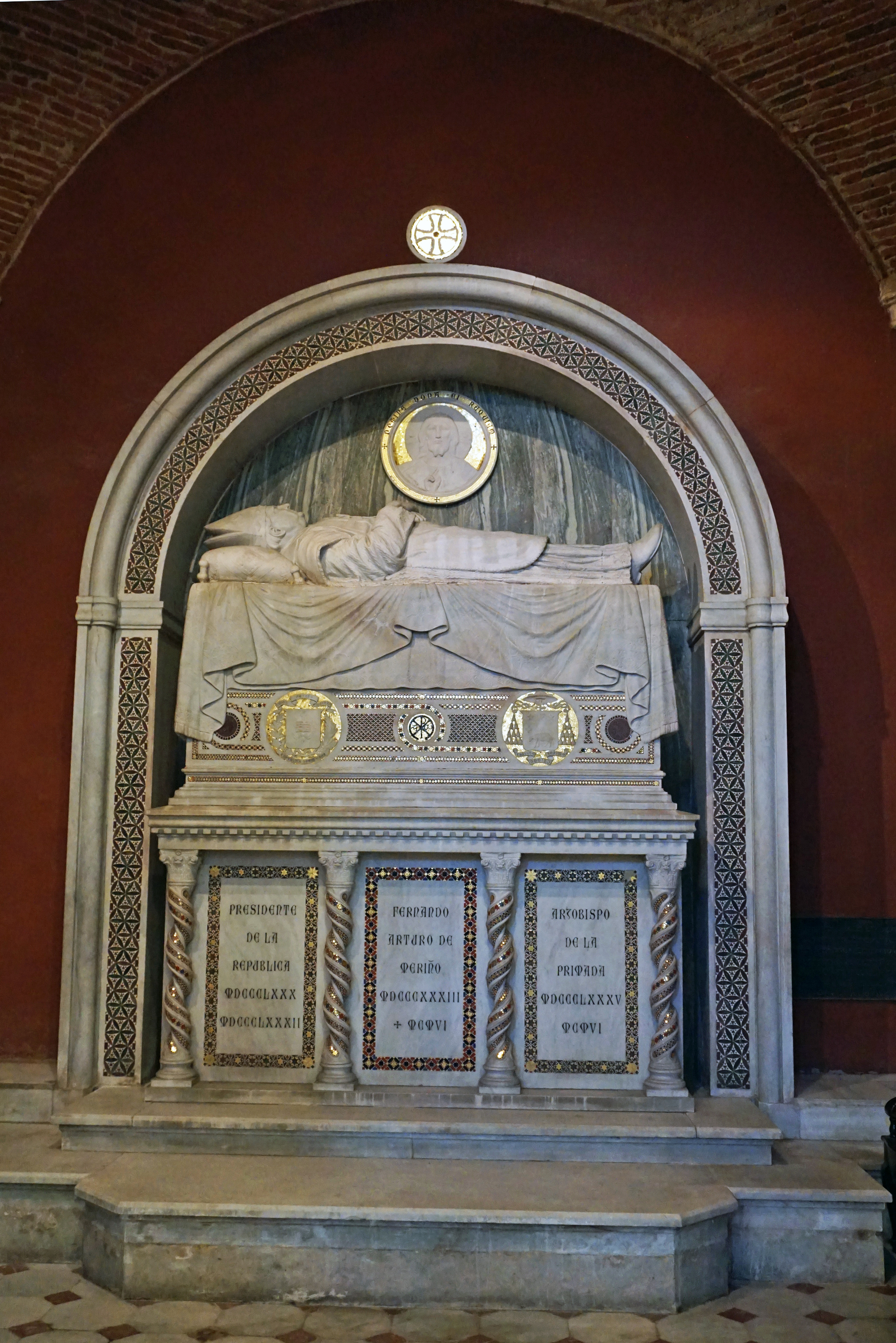 Tomb Monseñor Fernando Arturo de Meriño Catedral Primada, Ciudad Colonial Santo Domingo. Dominican Republic.